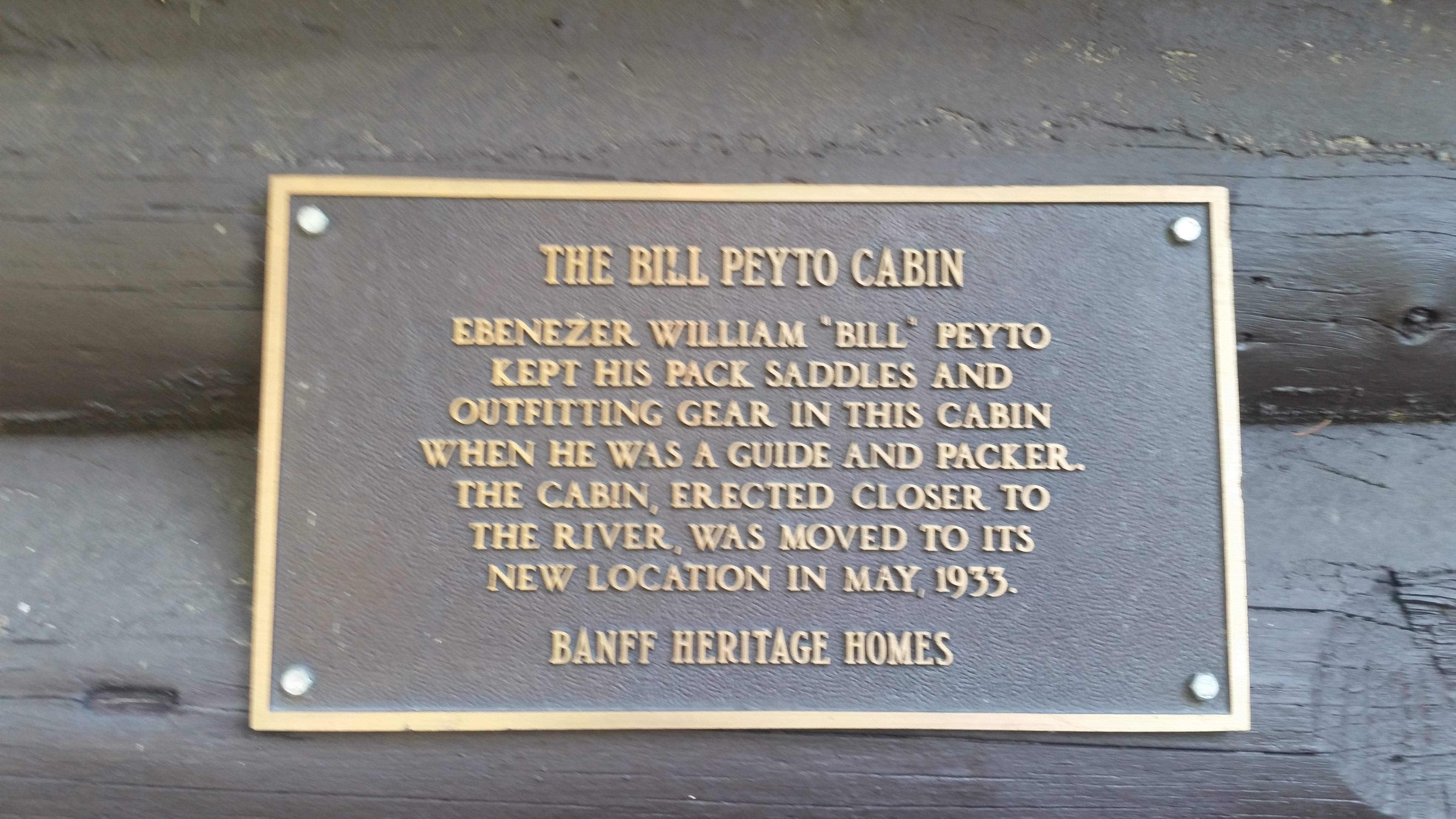 Label on the Bill Peyto Cabin located on the Whyte Museum property.